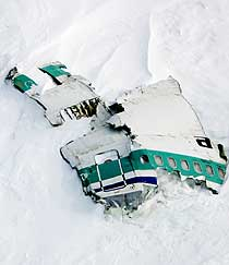 Fuselage of the DC-10 that crashed in 1979 into Mount Erebus, Antarctica. Picture taken 25 years after the crash.